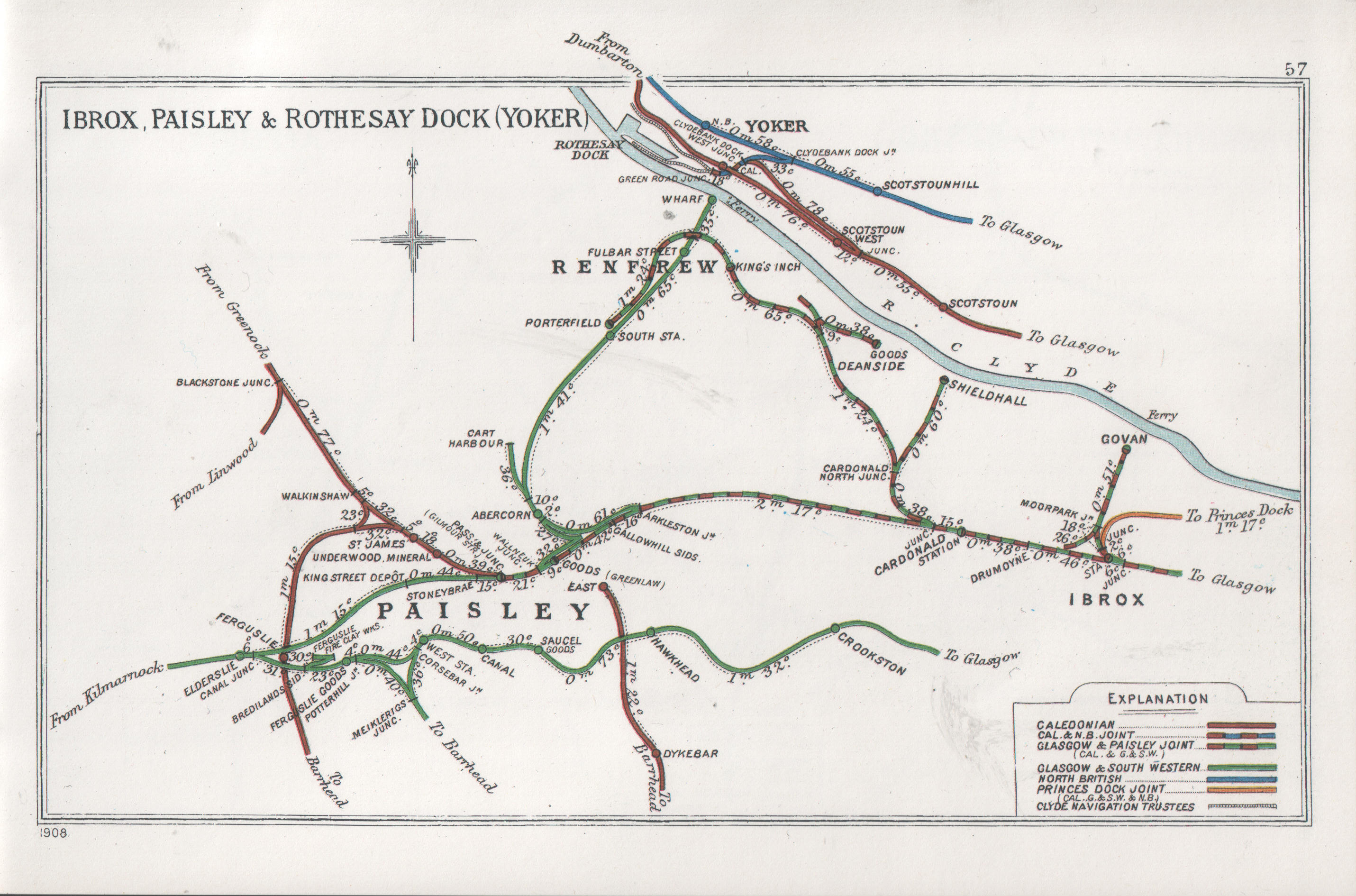 Pre Grouping railway junction around Ibrox, Paisley & Rothesay Dock (Yoker)